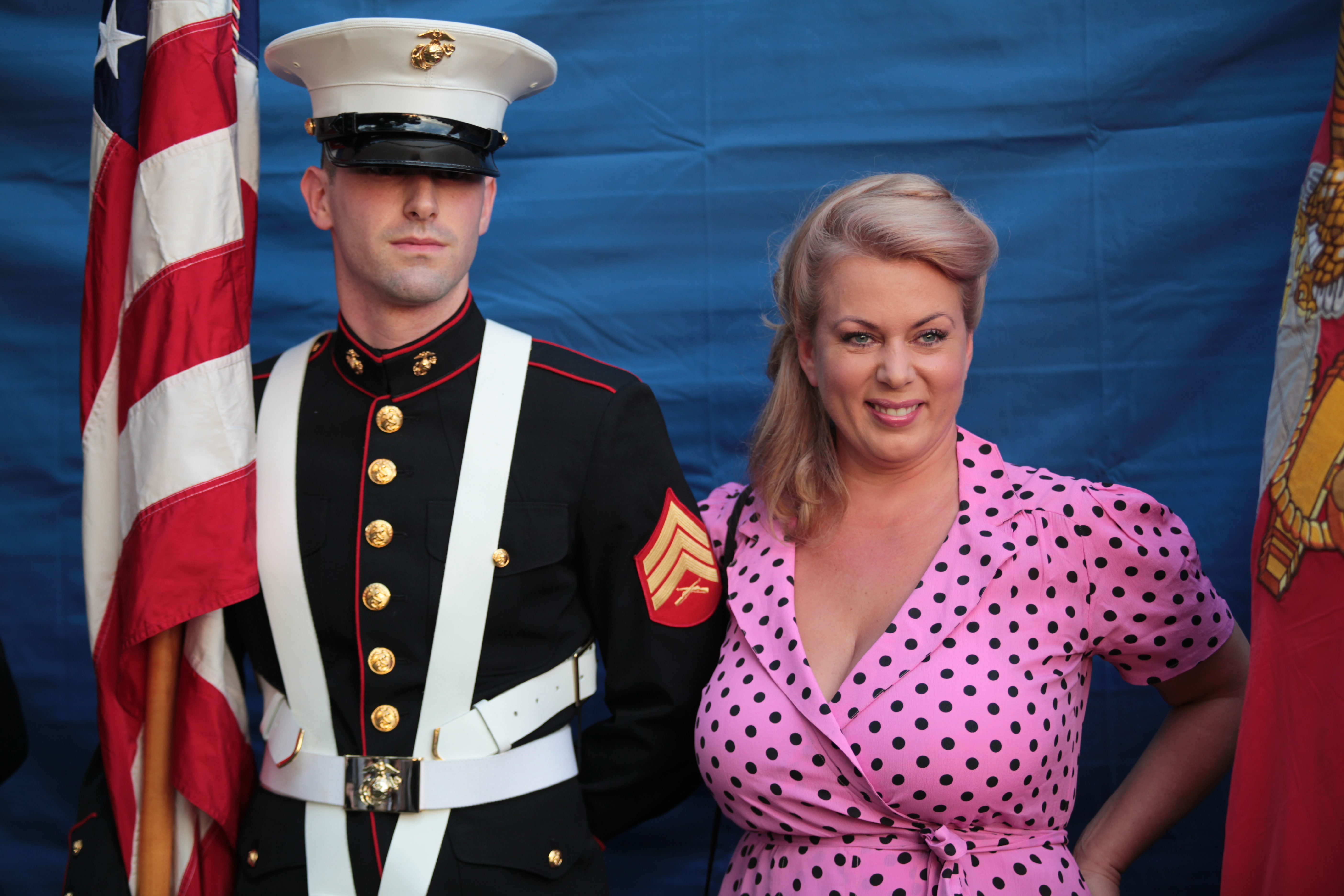 Gerlinde Jänicke, 4th of July 2014 at Berlin-Tempelhof